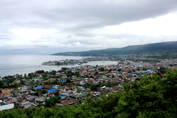 Luwuk City, Banggai, Central Sulawesi, Indonesia